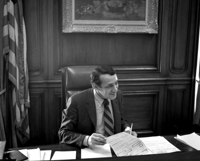 Harvey Milk filling in for Mayor Moscone for a day in 1978